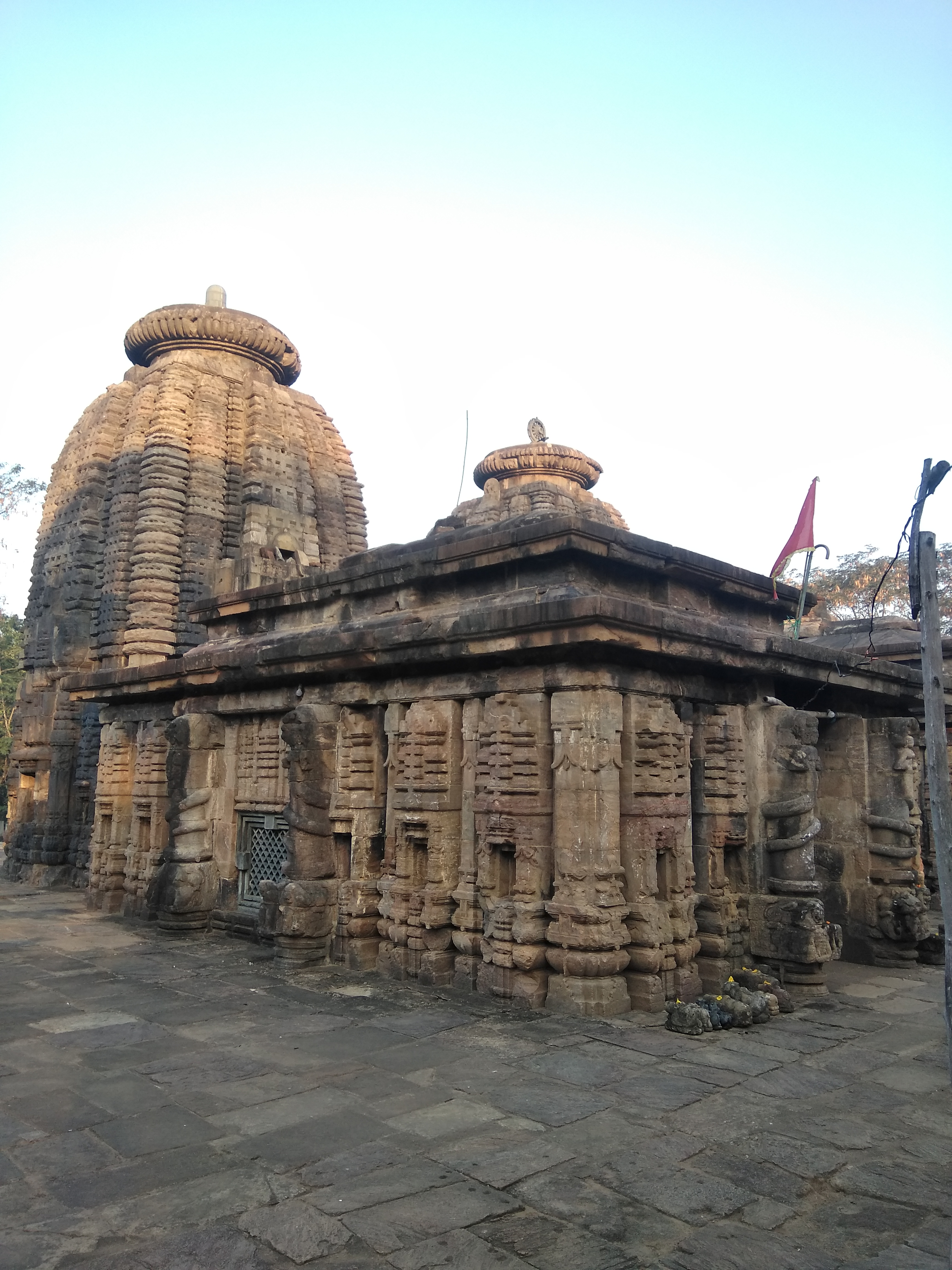 Temple of Nilamadhava and Sidheswara